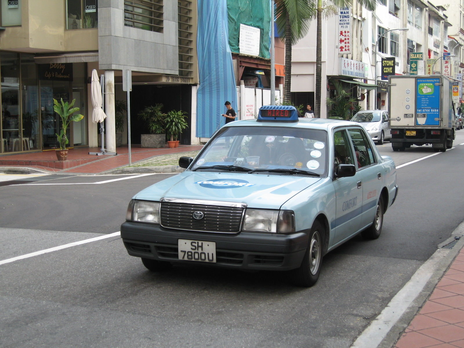 A Comfort taxi in old Comfort livery at Seah Street. Taken by Terence Ong in February 2006.